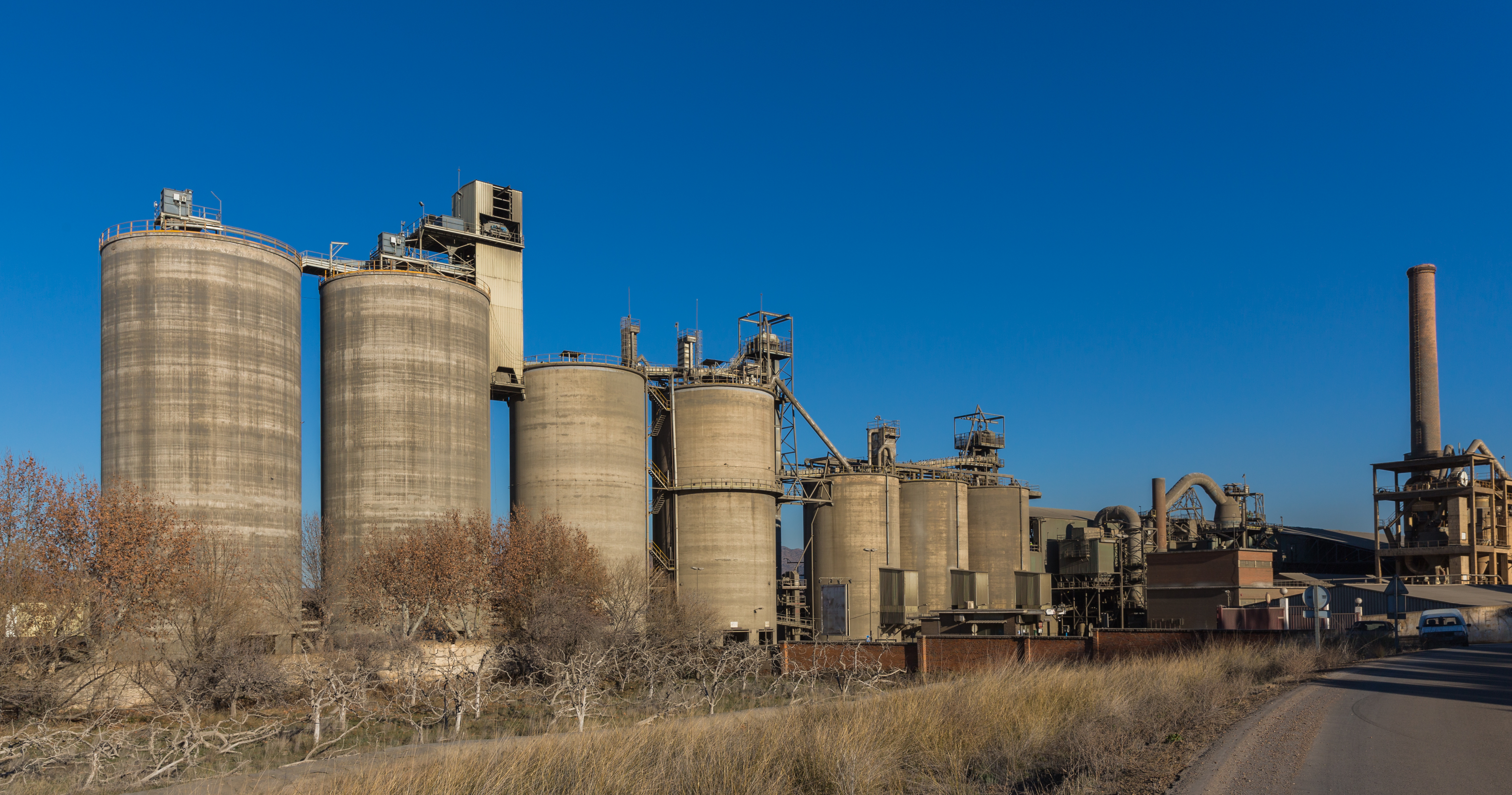 Cement plant of Morata de Jalón, Zaragoza, Spain